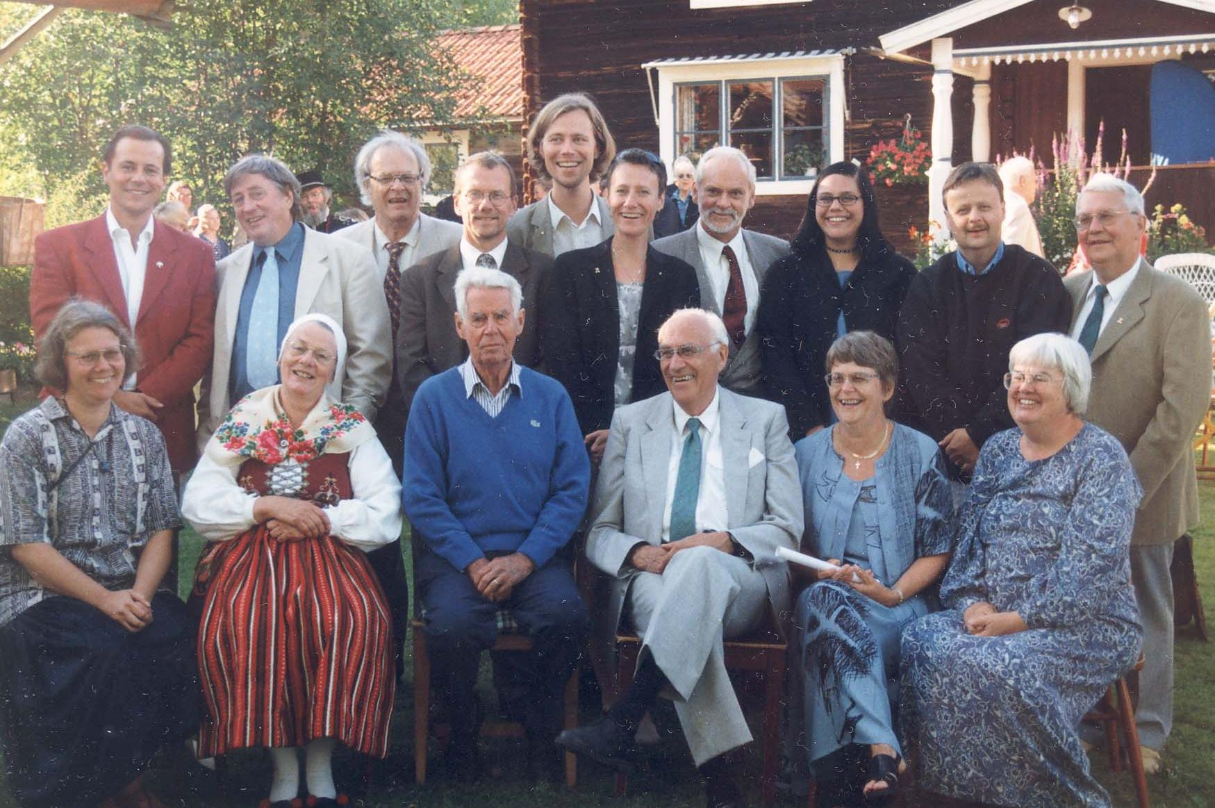 The 80th birthday of Hans Ridderstedt (seated left) is observed with his brother Lars Ridderstedt (seated right) and their children & nieces & nephews (all siblings or first cousins l-r) Karin Lundberg, Dag Ridderstedt, Gunnar Ridderstedt, Margareta Ridderstedt, Jacob Truedson Demitz, Hans-Erik Bergman, Jacob Ridderstedt, Kristina Ridderstedt, Stefan Ridderstedt, Maria Ridderstedt, Brita Sundin, Johannes Ridderstedt, Birgitta Ridderstedt & Anders BergmanPlace: Fornby, Siljansnäs, Sweden